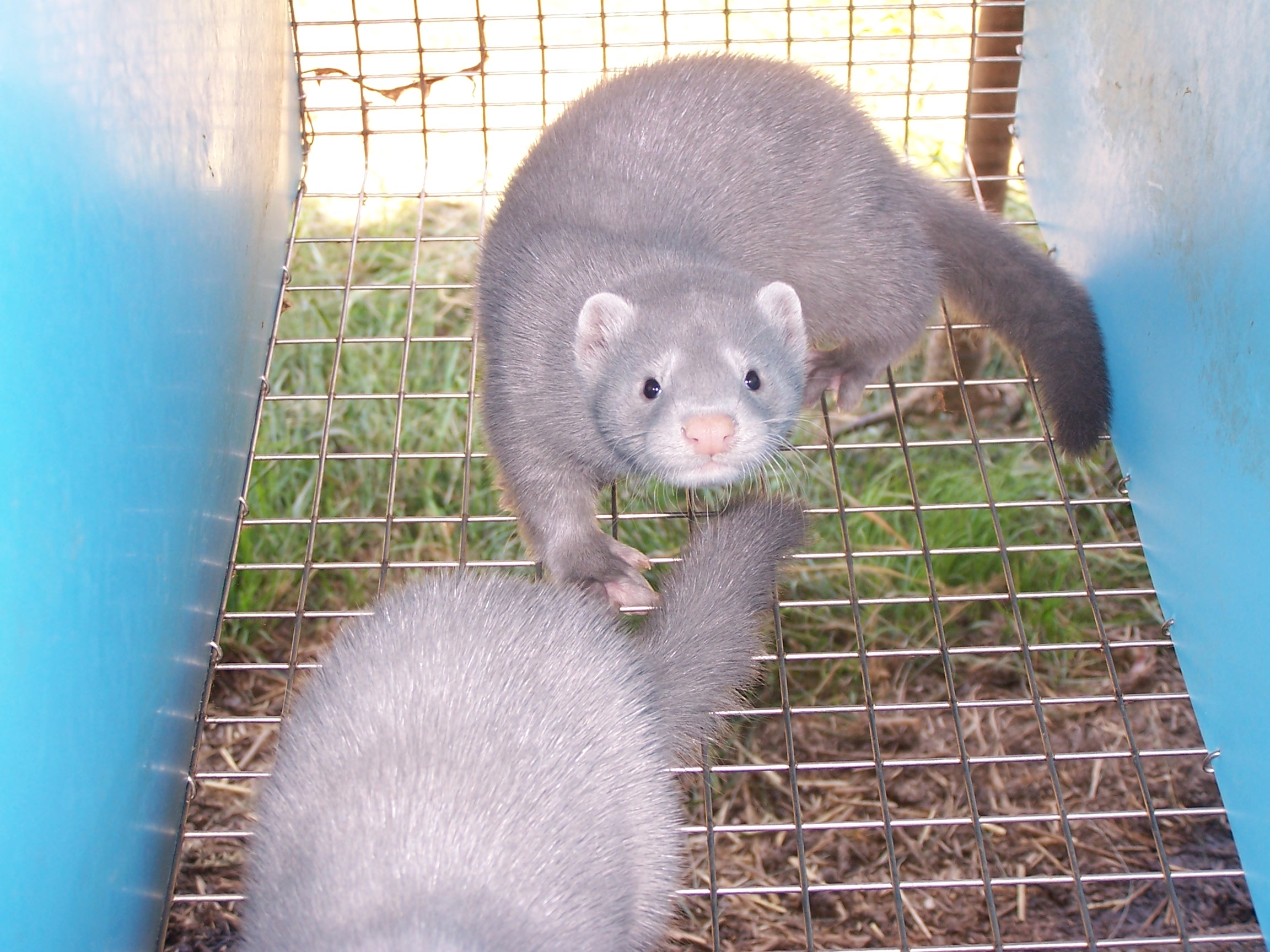 American Mink - breeding animal Silverblue , Poland.